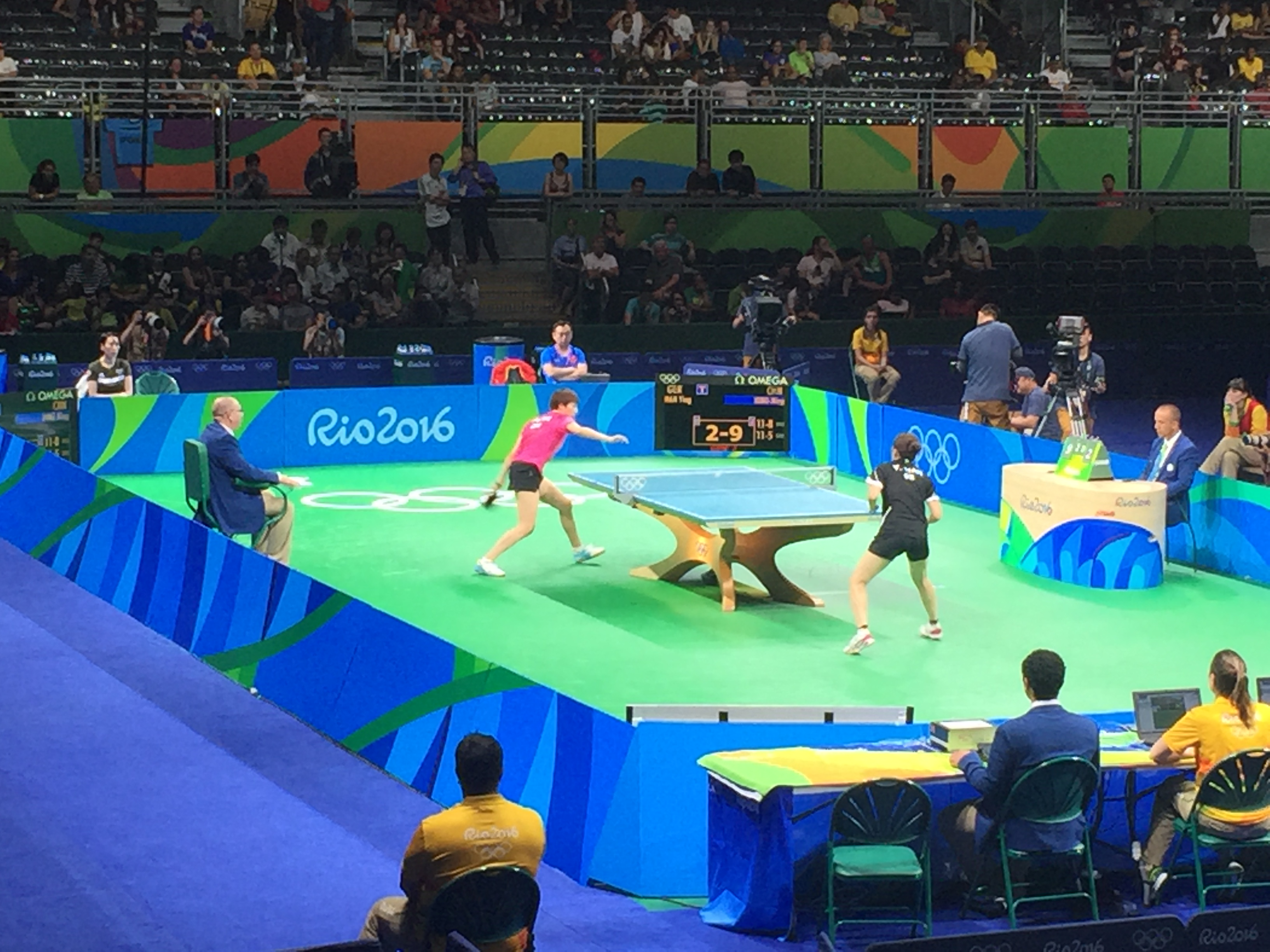 Rio 2016 - Table tennis women's quarter finals